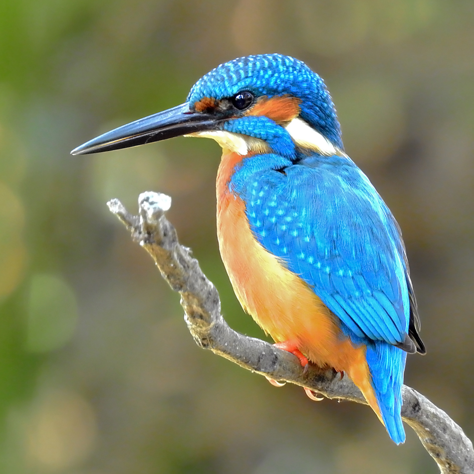 ♂ Common Kingfisher (Alcedo atthis) from Mangaon, Maharashtra, India.